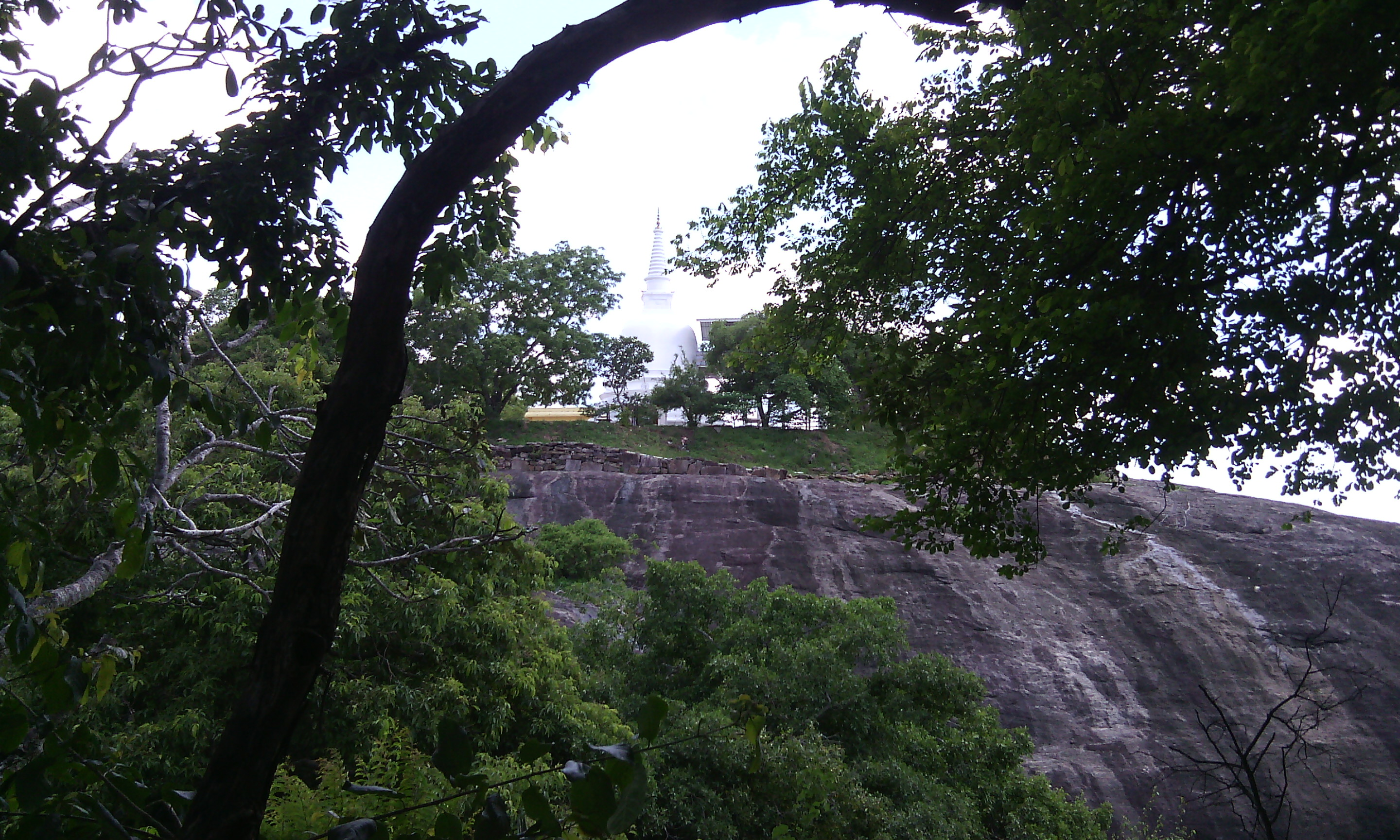 Buddhangala Raja Maha Viharaya